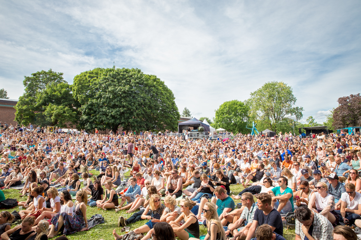 From Daniel Norgren's concert at Piknik i Parken in Oslo on 25. June 2016.